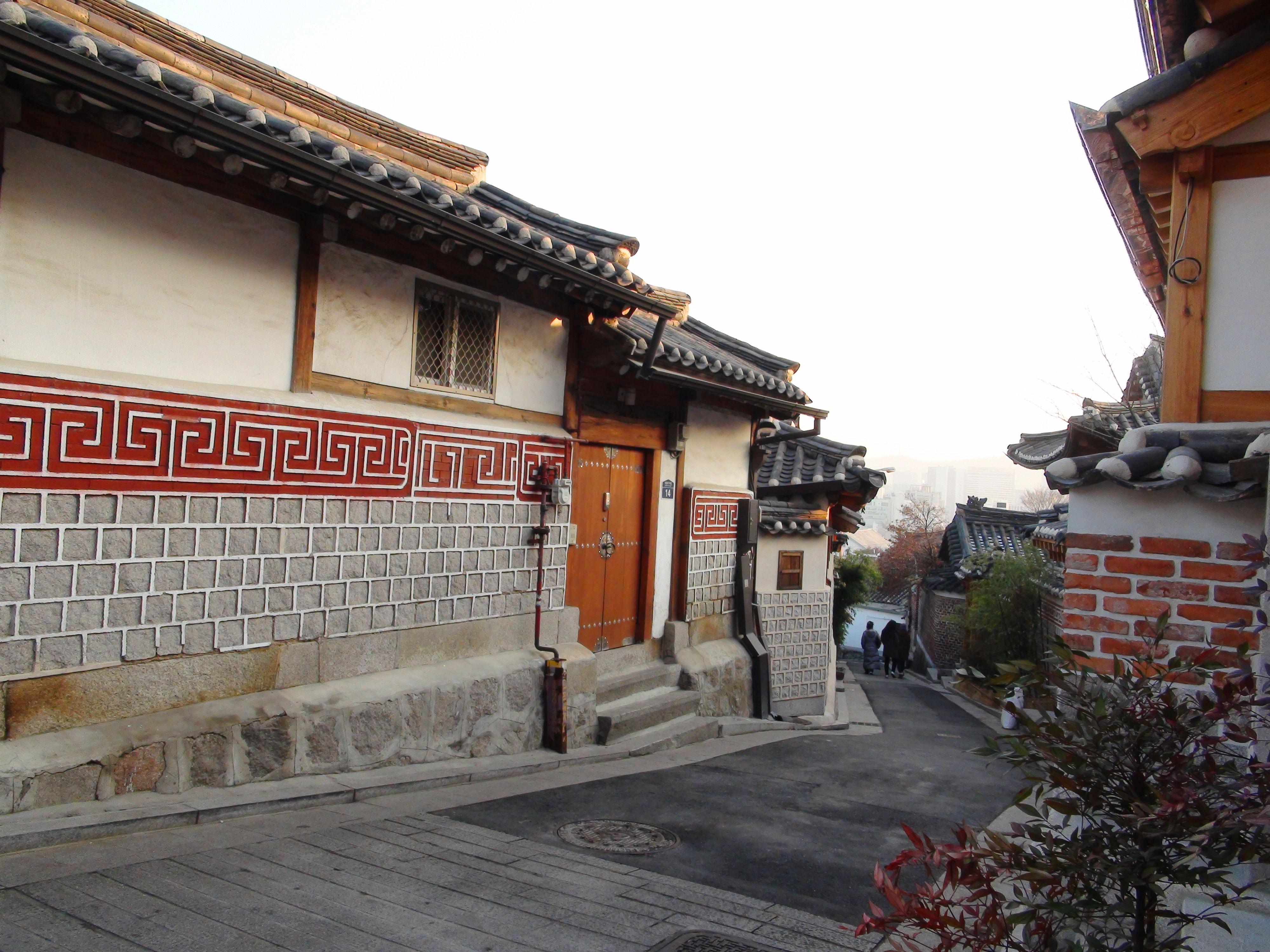 Area west of Bukchon Hanok Village in Seoul